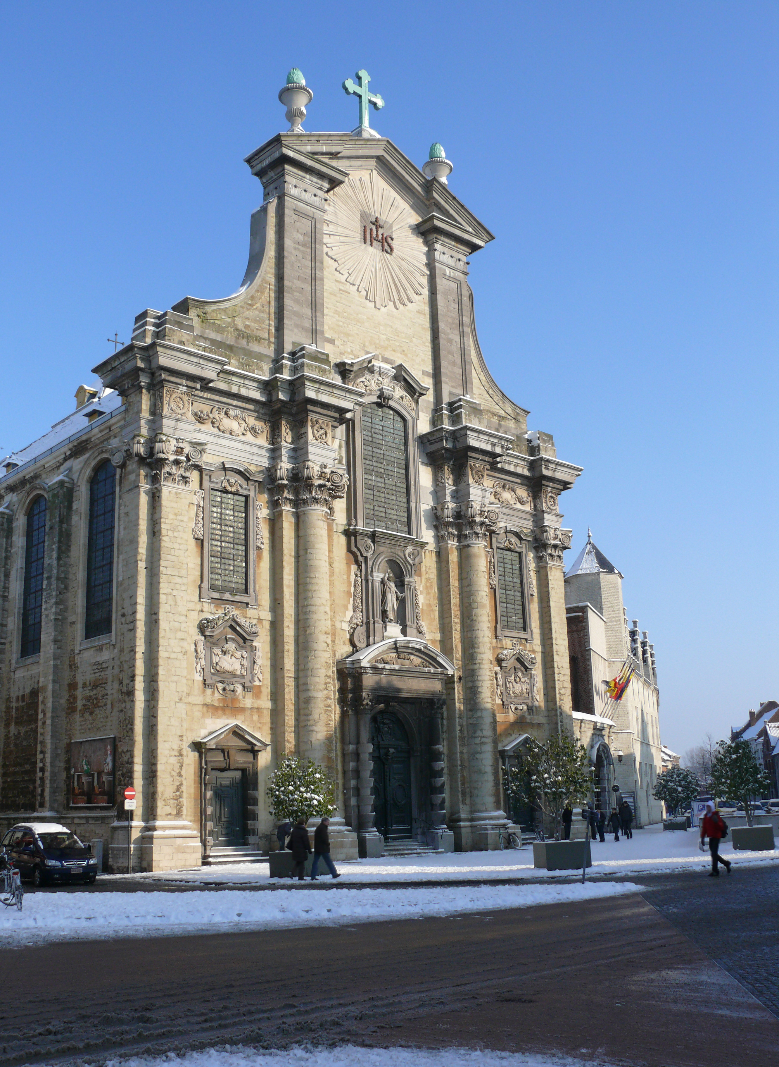 The Sint-Pieters- en Pauluskerk (Saint peter's and Paul's Church) is a former Jesuit Church in Mechelen